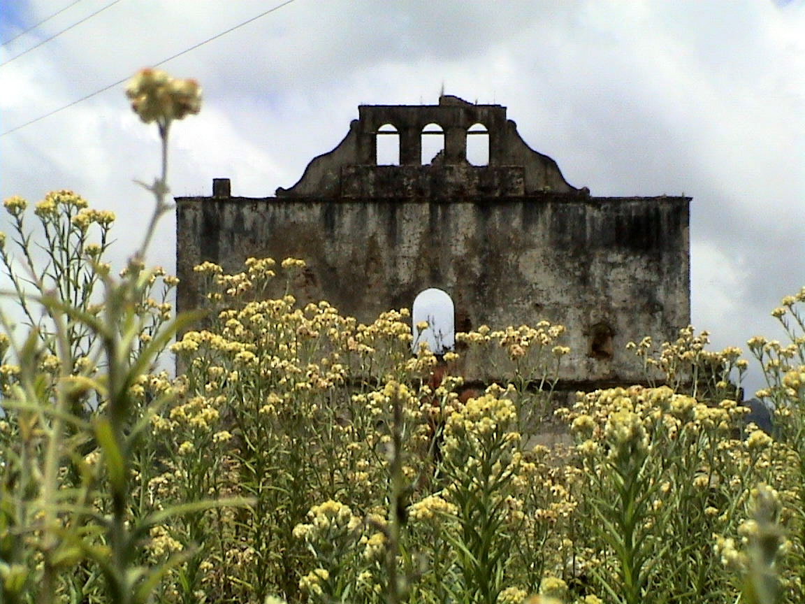 Ruin of San Sebastian church in San Juan Chamula, Mexico.